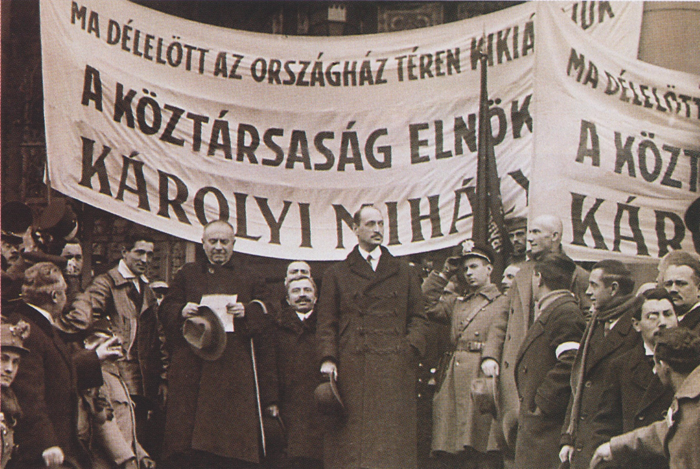 Declaration of the Hungarian People's Republic on 16 November 1918 by Prime Minister Mihály Károlyi and János Hock, the President of the Hungarian National Council (MNT)